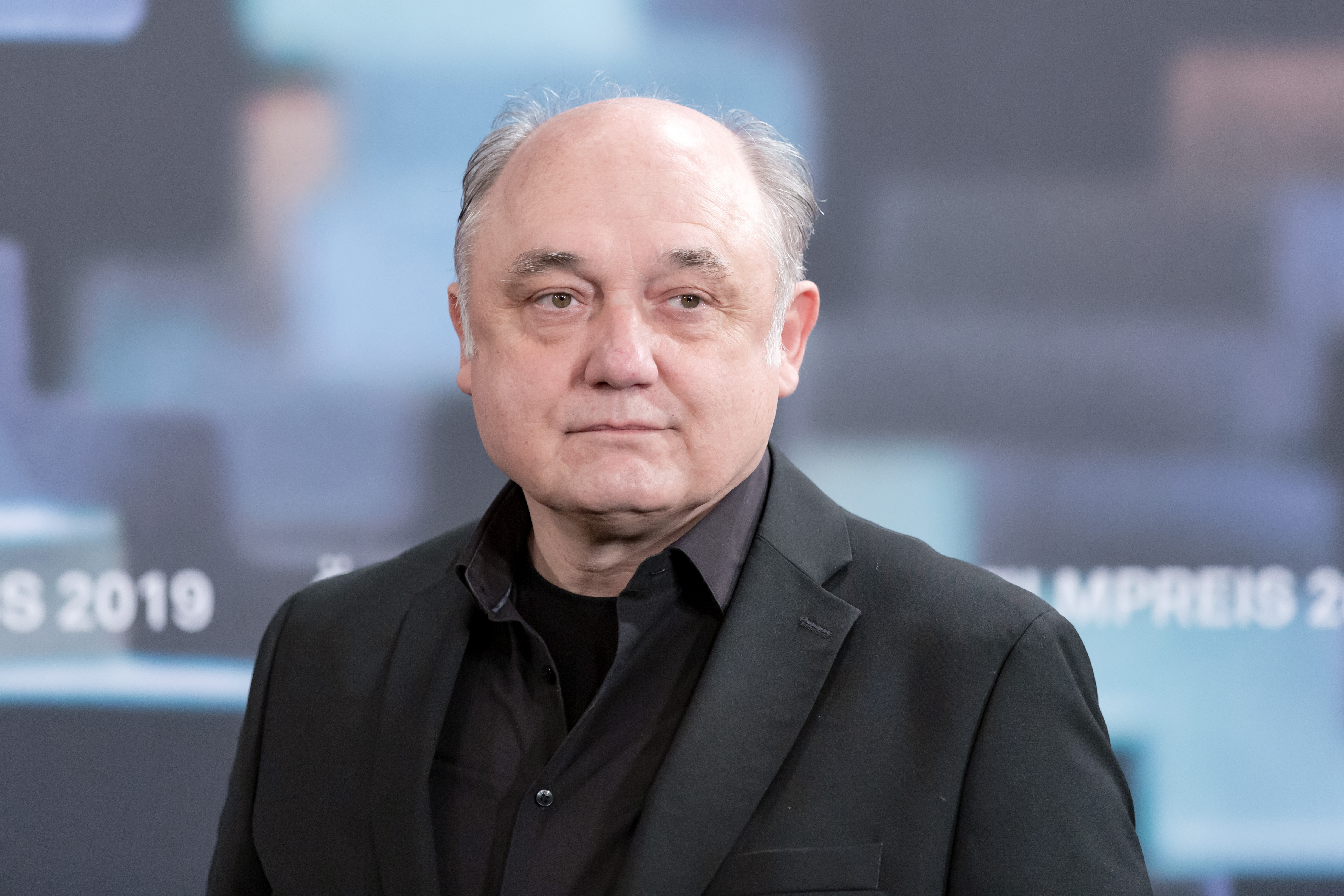 Karl Fischer ("Murer – Anatomie eines Prozesses"), photo call at the Austrian Film Awards 2019 (Rathaus, Vienna,Austria).